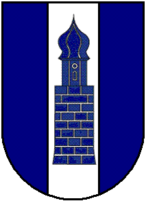 Coat of arms of Herdern, Canton of Thurgau, SwitzerlandEsperanto: Blazono de Herdern, Kantono Turgovio, Svislando